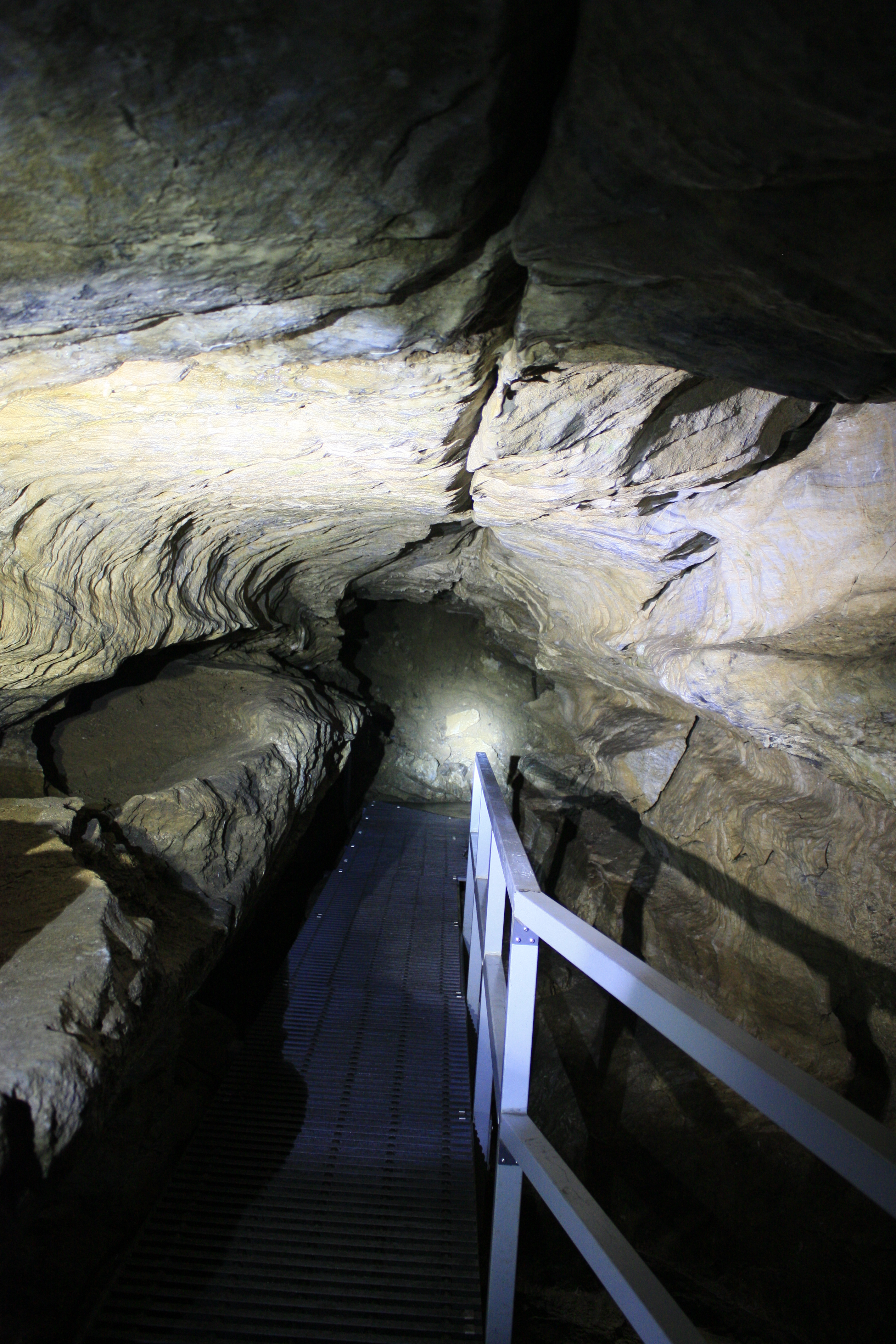 The spine of the whale is a small fault which has allowed a trickle of water through. Over time, the water enlarged a space which it eagerly filled, and as time went on, the water dug deeper, leaving rib-like ridges in the wall, called rills.